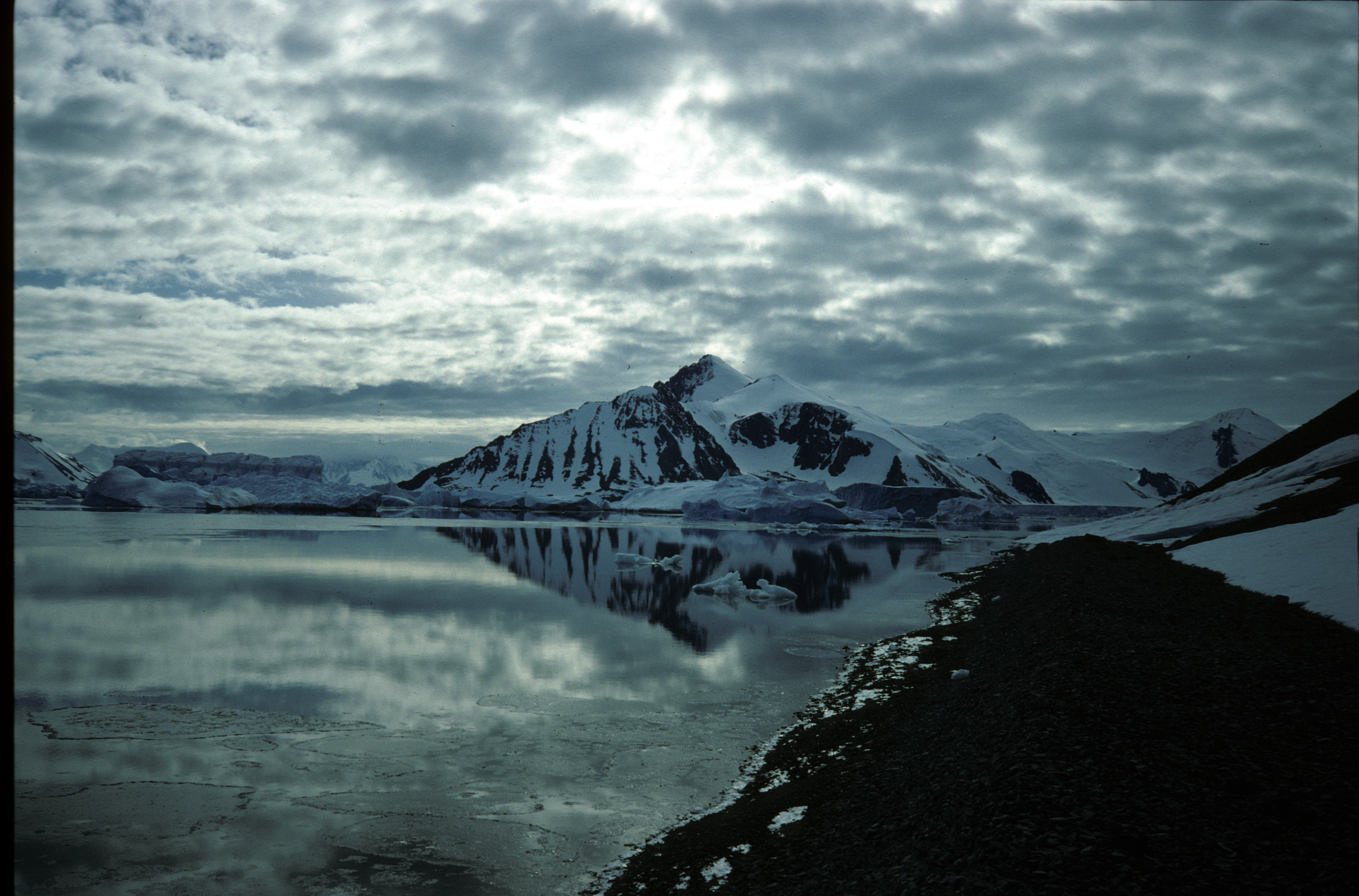 Horseshoe Island NE Gaul Cove looking to Ridge Island